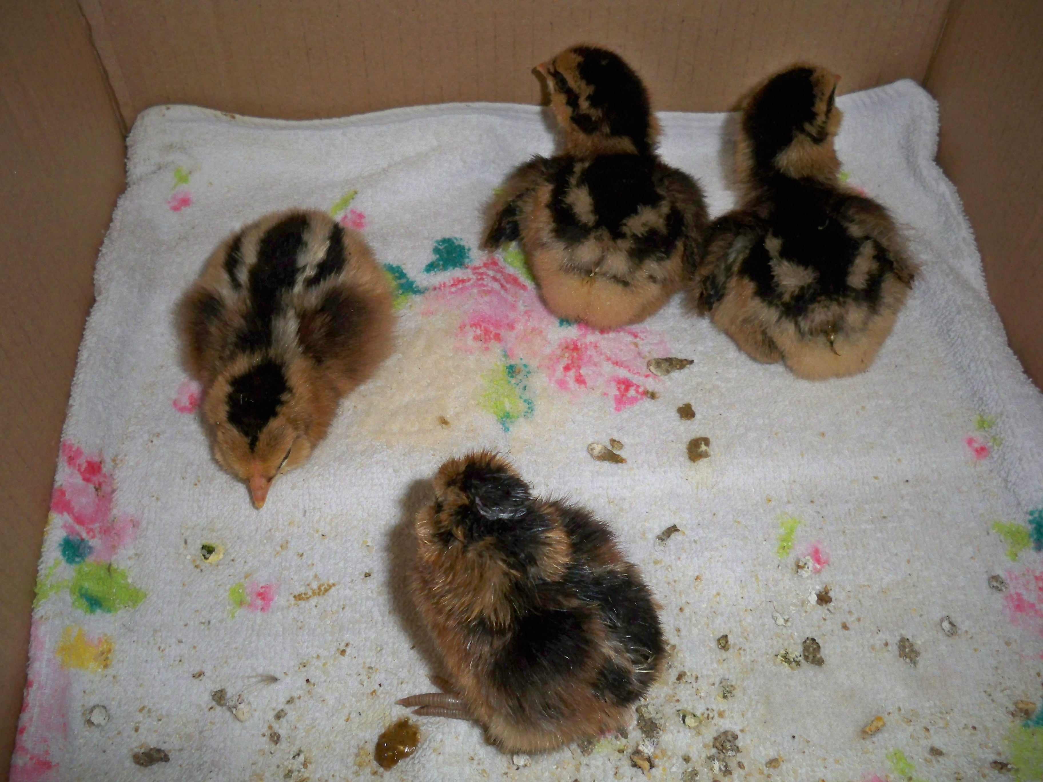 Aracuaner chick